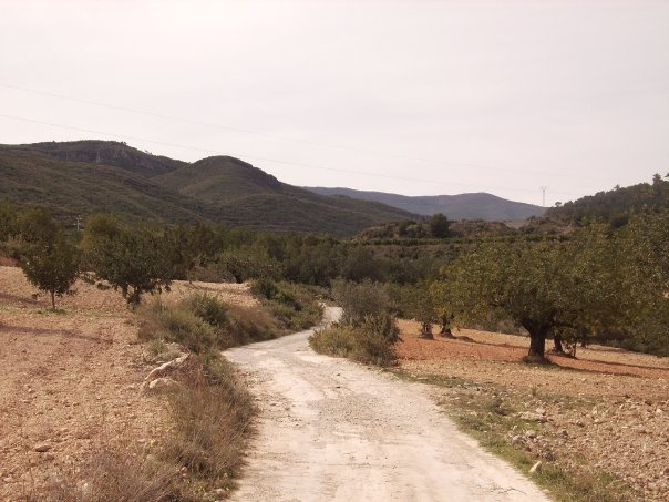 Landscape La Serranía